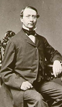 j. Th. Smits van Oyen ca. 1868